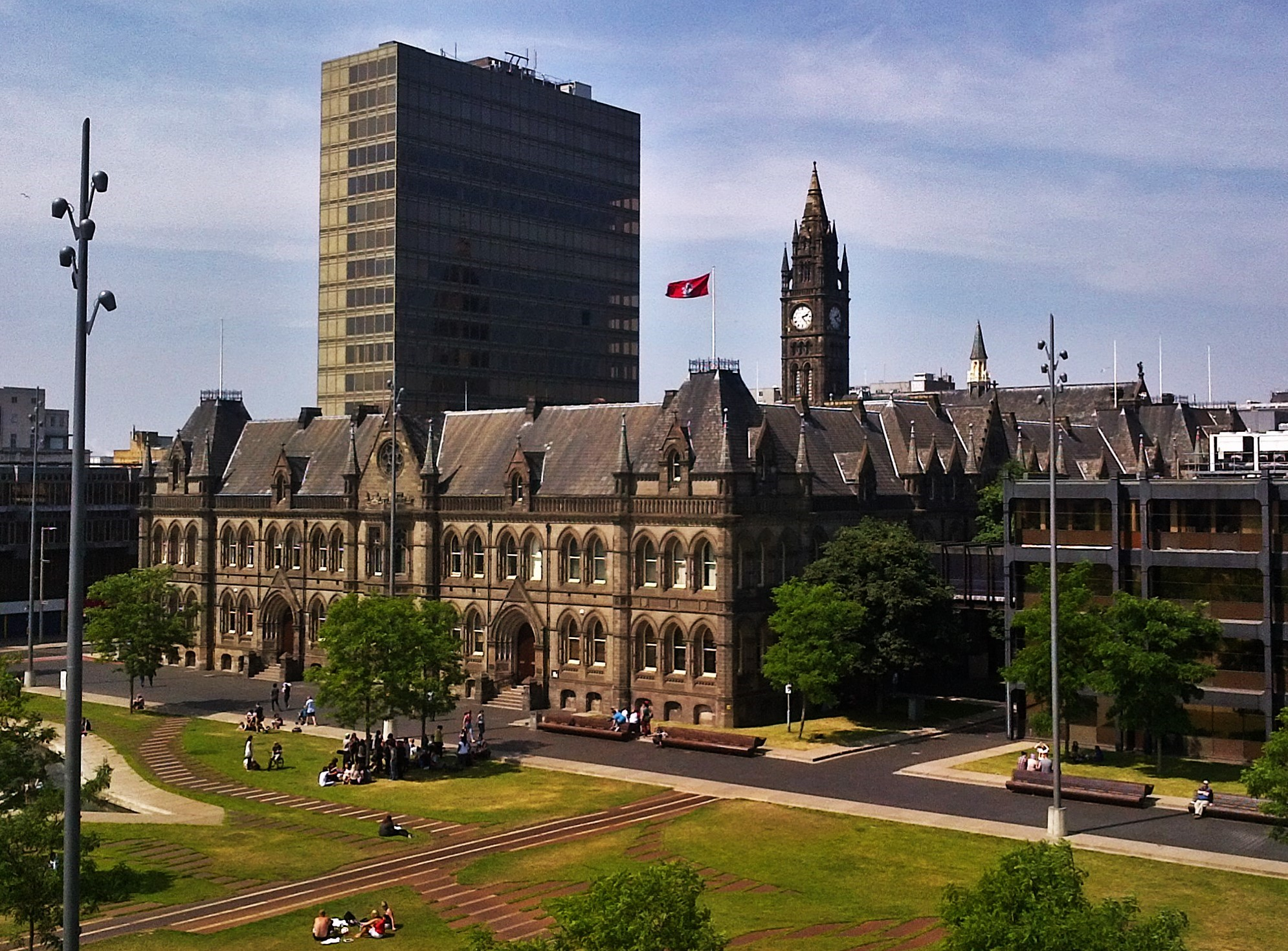 Middlesbrough Town Hall during the summer of 2013.